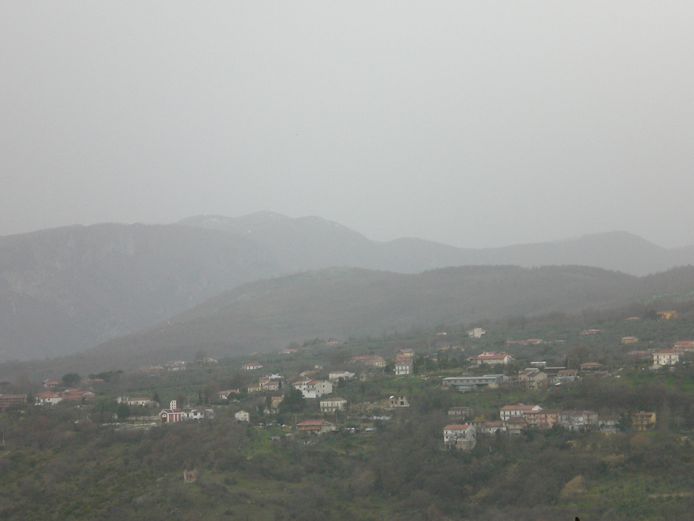 Panorama of Camaldoli